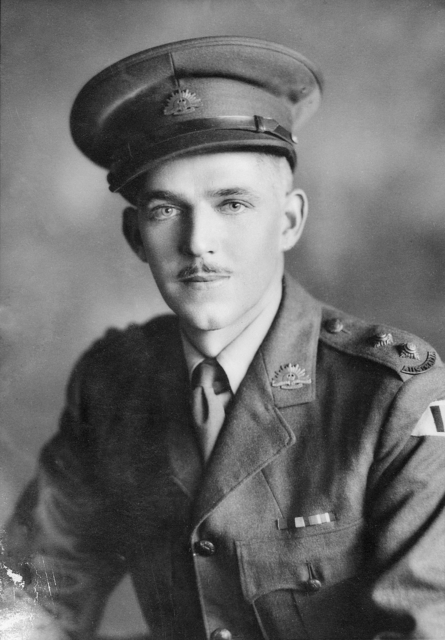 c. 1946. Studio portrait of Lieutenant (Lt) B.C.(Ben) Hackney, 2/29th Battalion, one of only two men to survive the Japanese massacre of wounded at Parit Sulong during the fighting on the Malay Peninsula in 1942. The force commanded by Lieutenant Colonel C.G.W. Anderson attempting to withdraw along the Bakri to Parit Sulong road was stopped at the bridge over the river at Parit Sulong. Unable to withdraw on the road, Anderson's men were forced to disperse through the jungle and swamps. They left behind 163 wounded who could not travel, including Lt Hackney. After they were captured by the Japanese the wounded prisoners were brutally herded together; many of the prisoners were forced into a shed from where on the evening of the 22 January 1942 they were tied together in small groups and taken away to be killed. Lt Hackney feigning death, was left behind. He crawled away and eventually found another member of his battalion, Sergeant Ron Croft, who had also escaped and they were also joined by an English soldier. The three eventually reached a Malay house where they were given assistance. Hackney who could not stand, convinced the others to leave him. The Malays, fearing reprisals by the Japanese, carried him off some distance from the house and left him. He managed to crawl from place to place, but was generally refused assistance by Malays, who appreared to fear reprisals, but was given assistance by Chinese. On the 27 February 1942, thirty-six days after he escaped the massacre, he was caught by a party of Malays, one dressed as a policeman, taken back to Parit Sulong and handed over to the Japanese. He was again subjected to brutal treatment by the Japanese, but after a series of moves on 20 March 1942 he arrived at the Pudu gaol at Kuala Lumpur. He was later taken with other POWs to Changi gaol. He survived the war and returned to Australia.